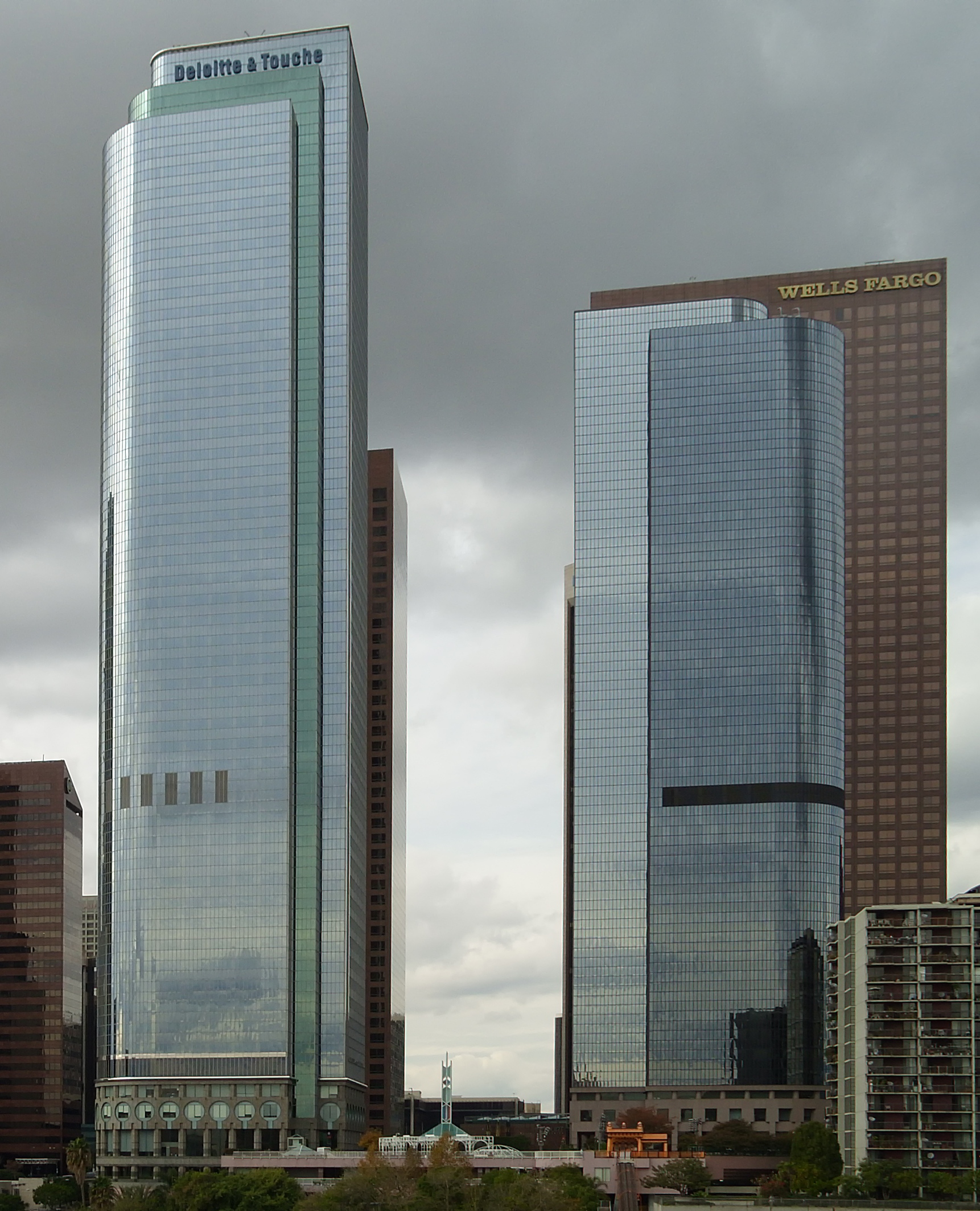 Downtown Los Angeles skyscrapers on a cloudy day — on Bunker Hill. Detail showing Two California Plaza (left) and One California Plaza